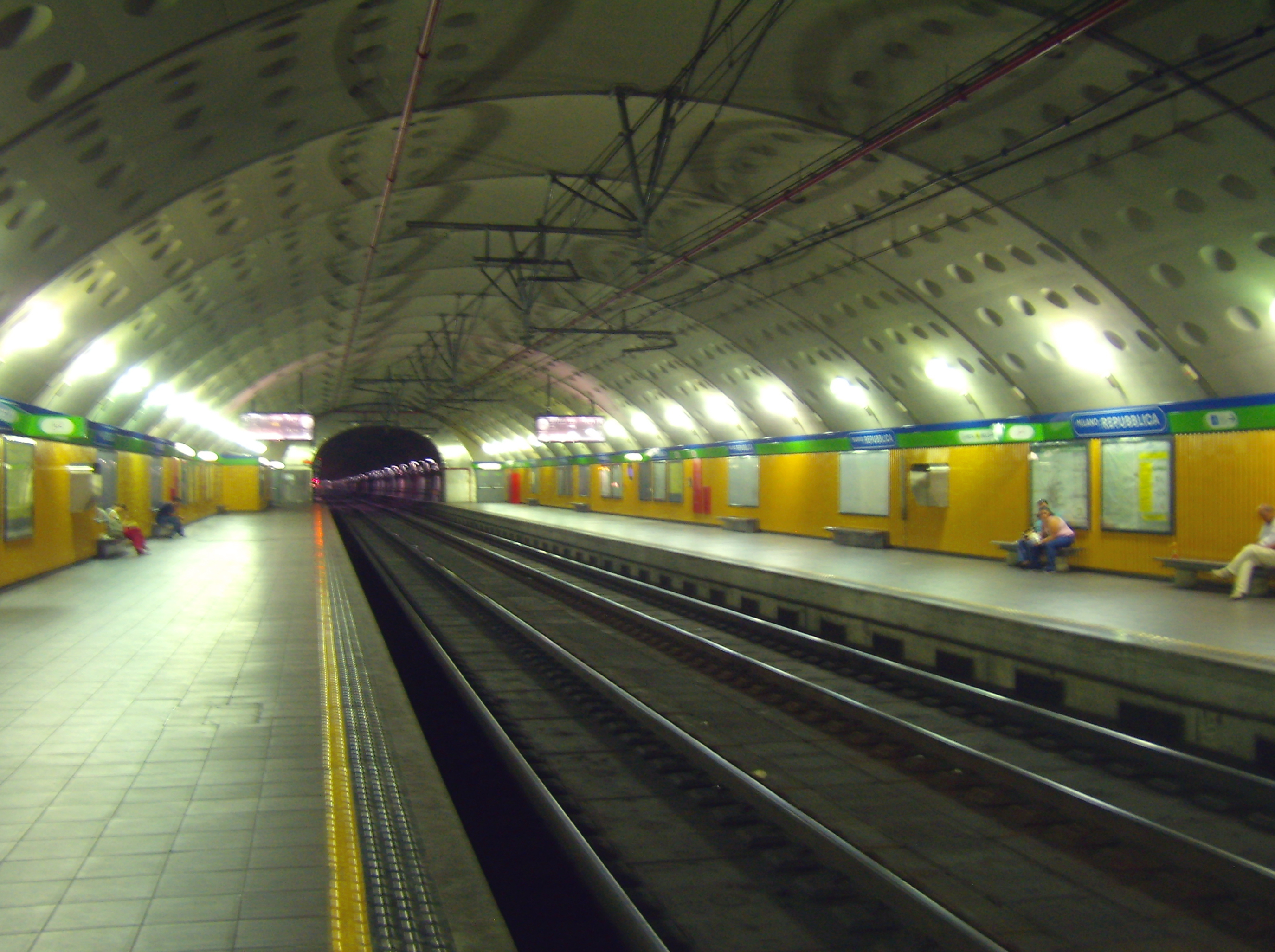 Milano Repubblica railway station